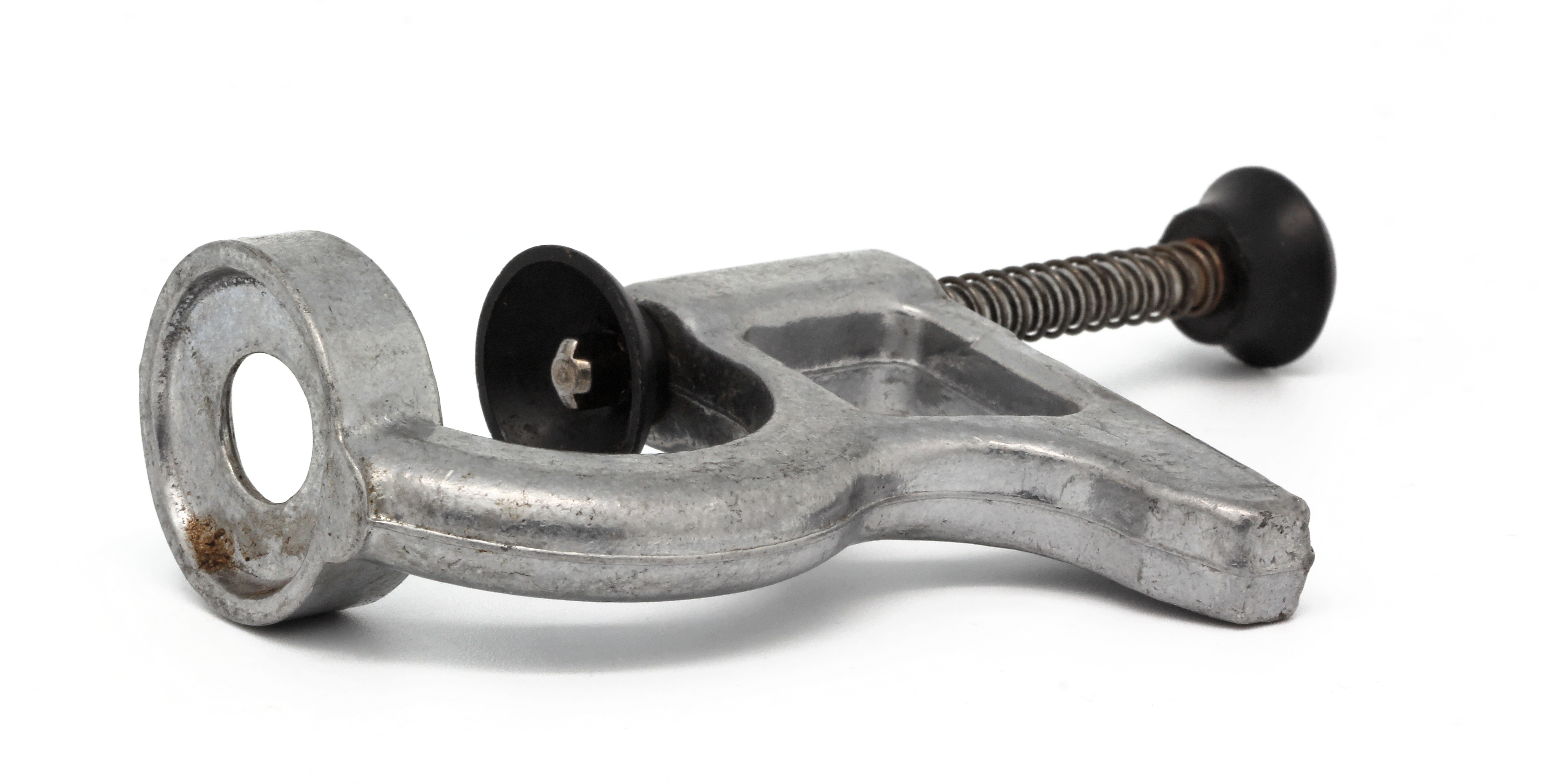 Cherry pitter